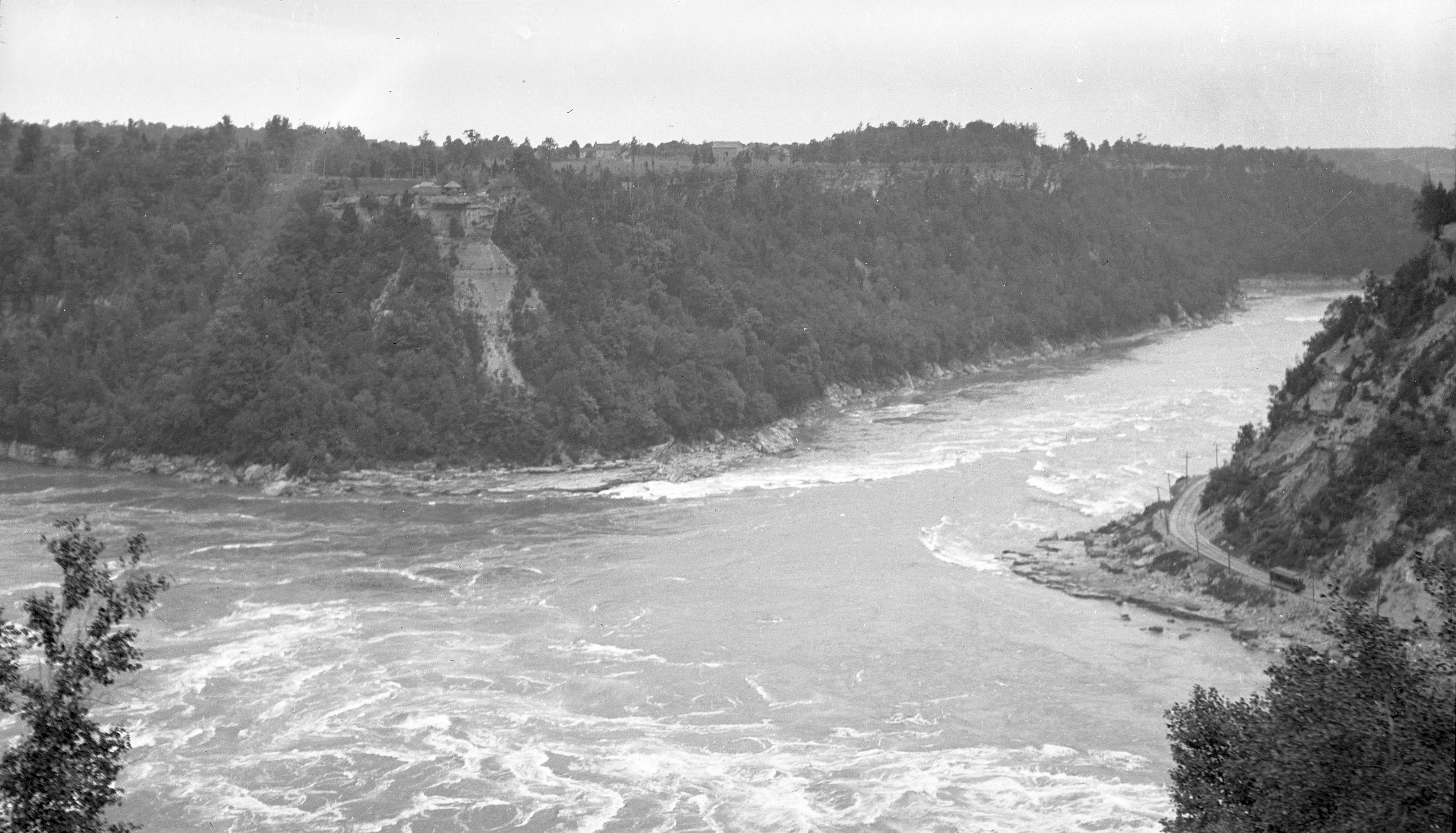 Whirlpool from Canadian side, Niagara Falls, Ontario, June 1911